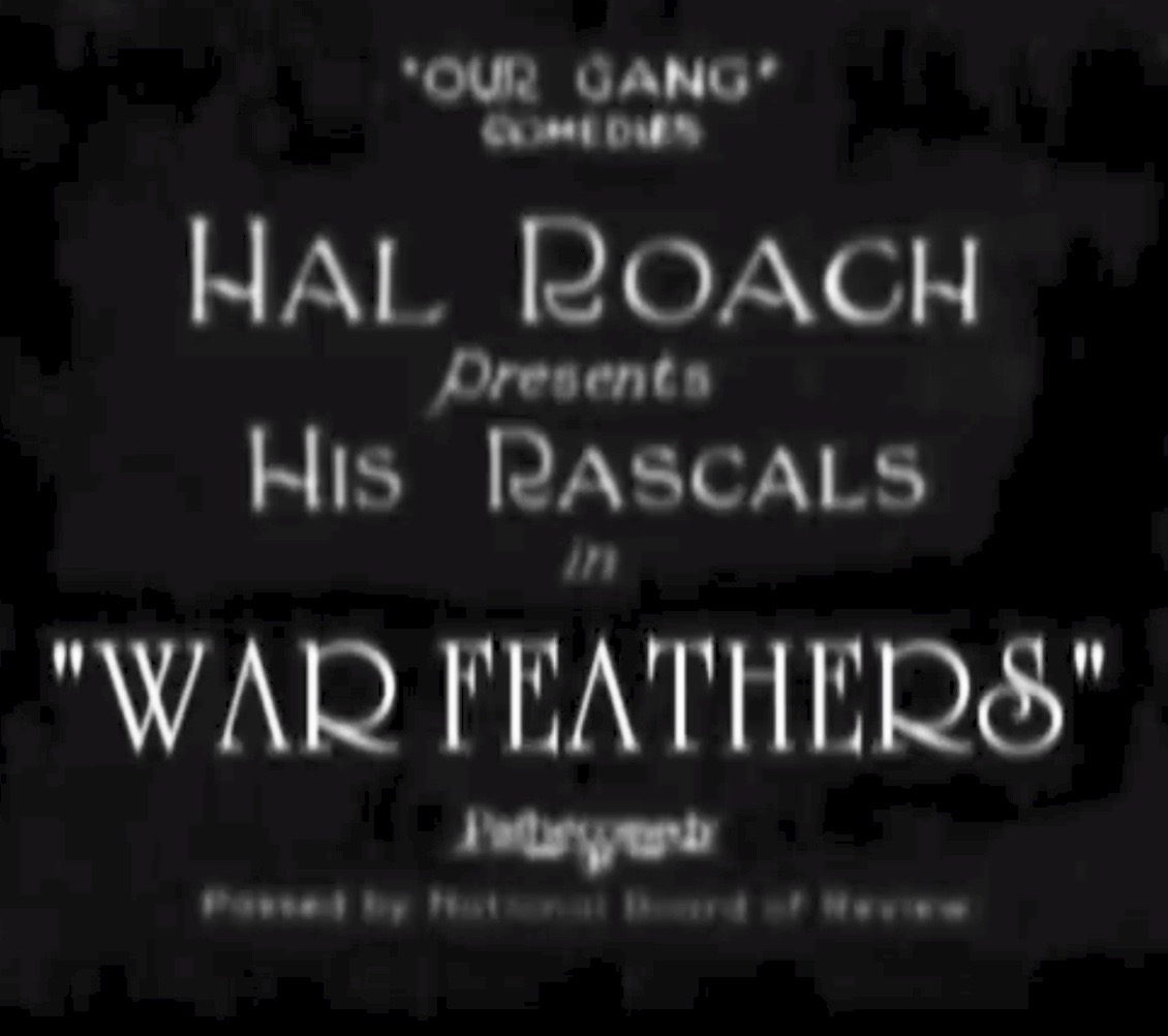 Title card for Our Gang film War Feathers.